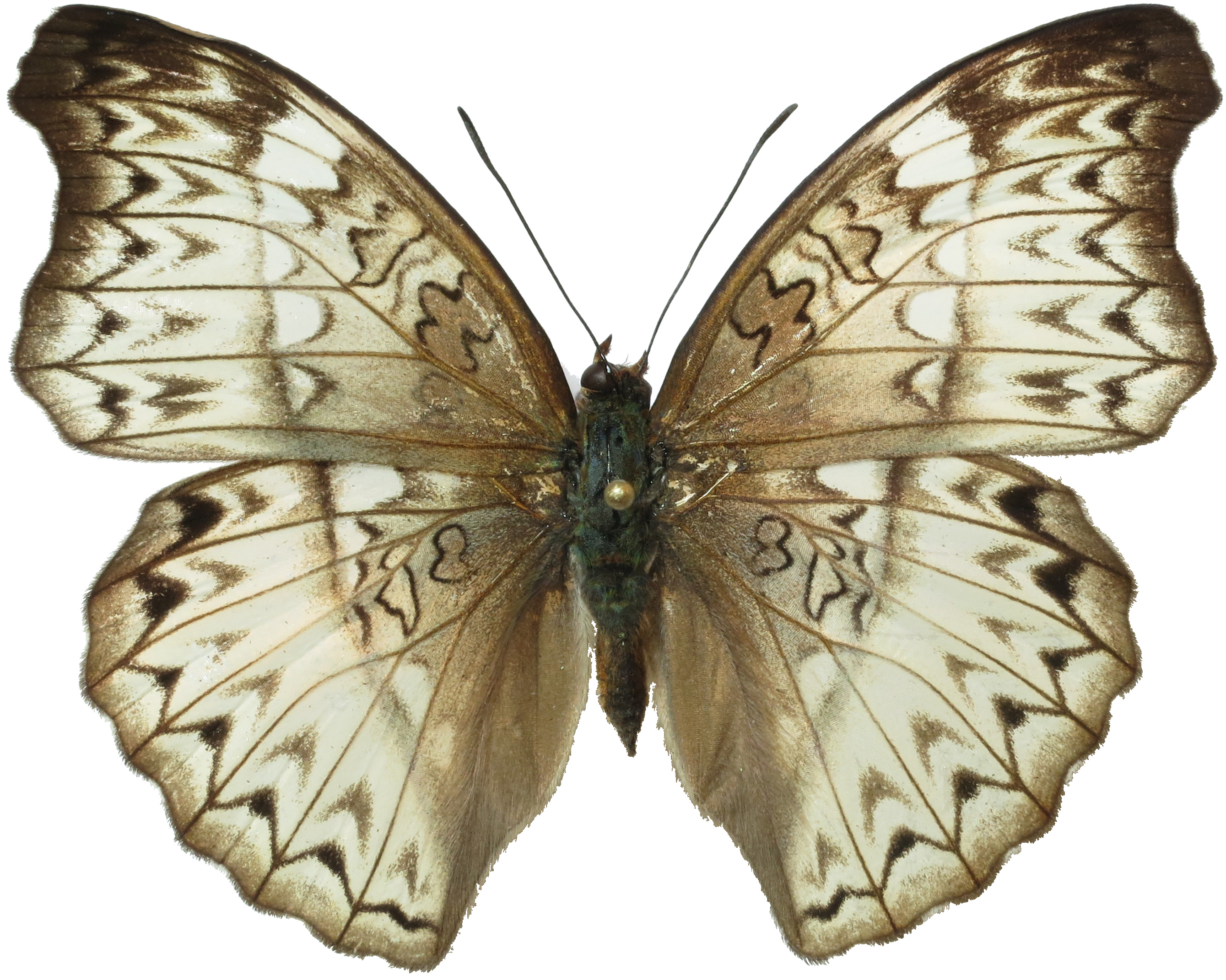 Cymothoe hobarti female from Kakamaga, Kenya